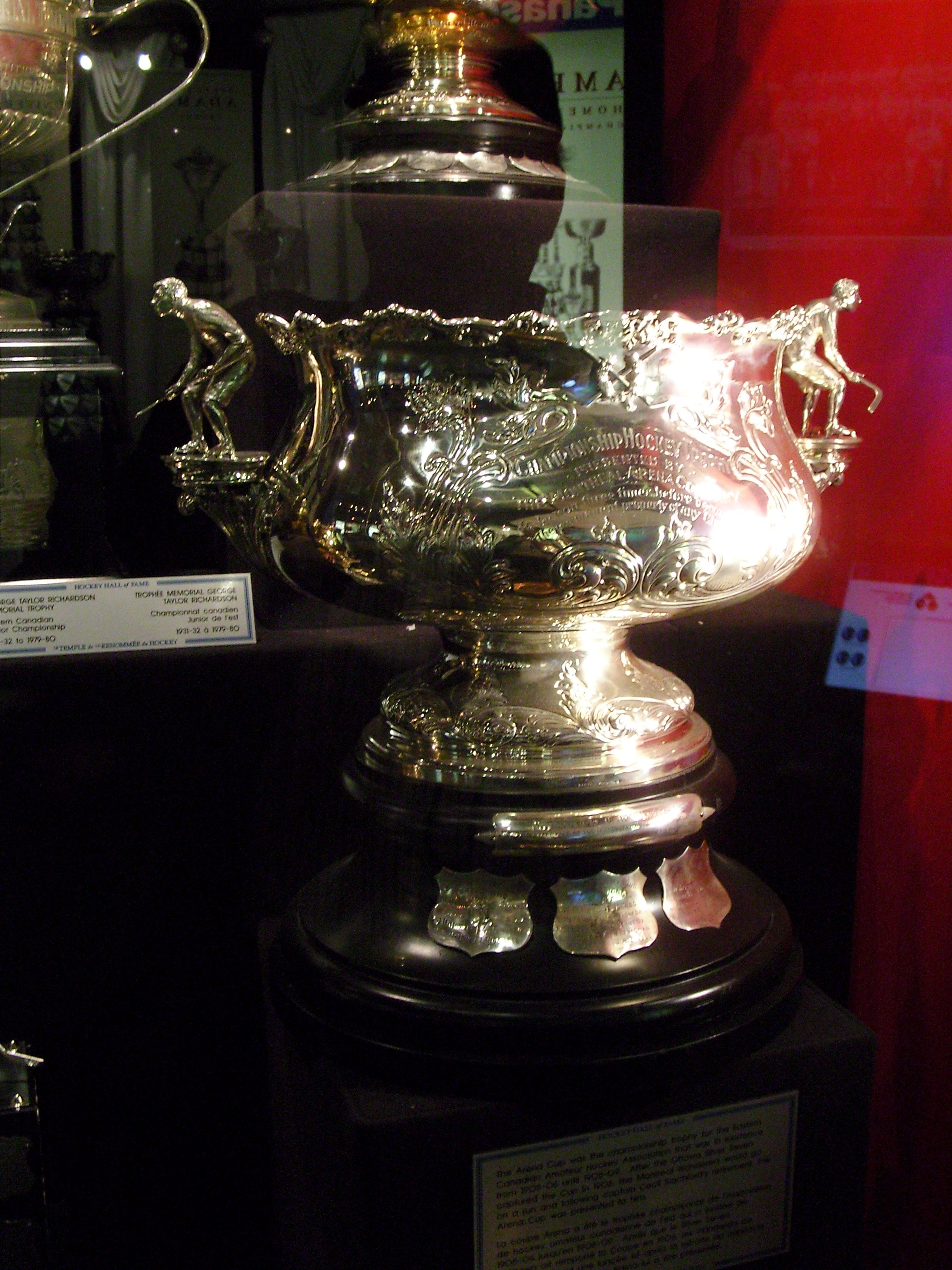 The championship trophy of the Eastern Canada Amateur Hockey Association from 1906.